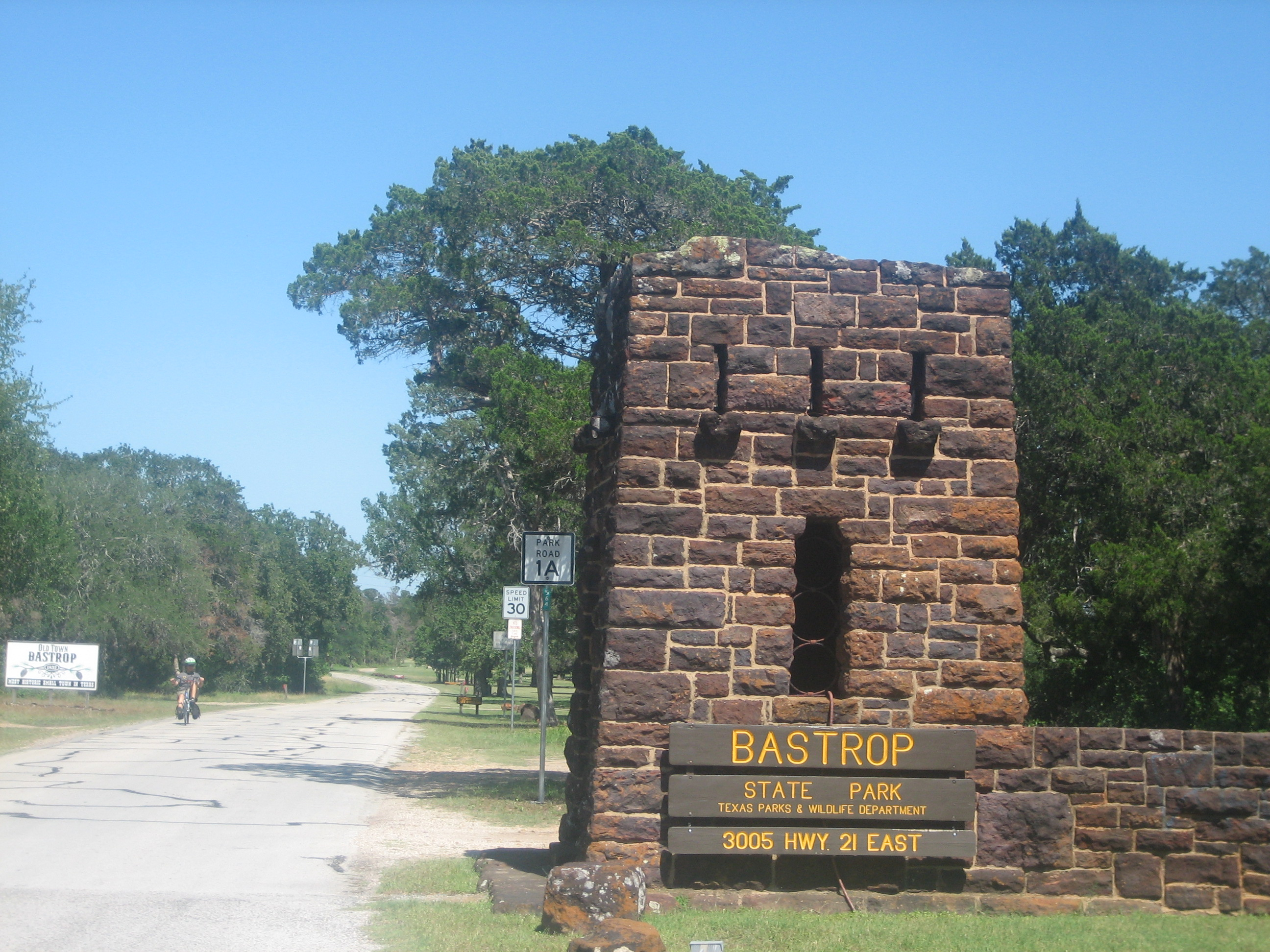 I took photo on May 21, 2009.Billy Hathorn (talk) 02:33, 31 May 2009 (UTC)